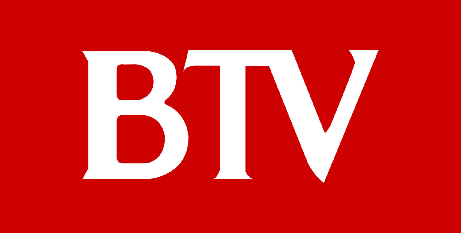 Logo of Beijing Television (BTV)